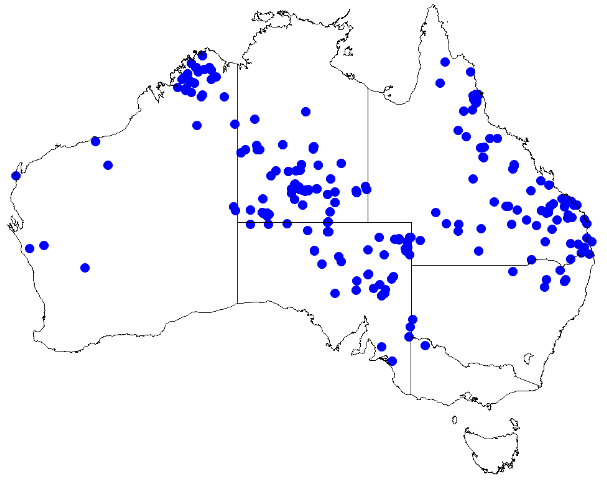 Wahlenbergia queenslandica occurrence data from Australasian Virtual Herbarium downloaded 12 May 2019 (no DOI)